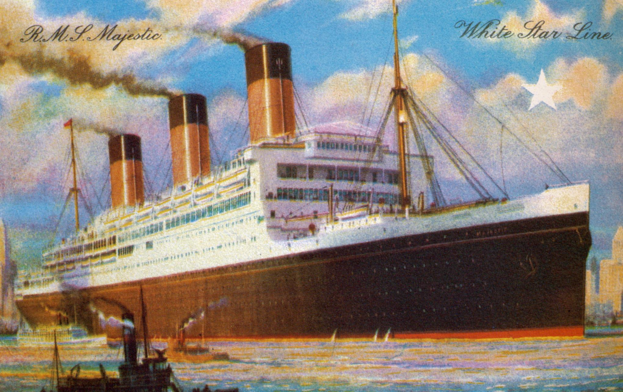 Full drawing of the RMS Majestic